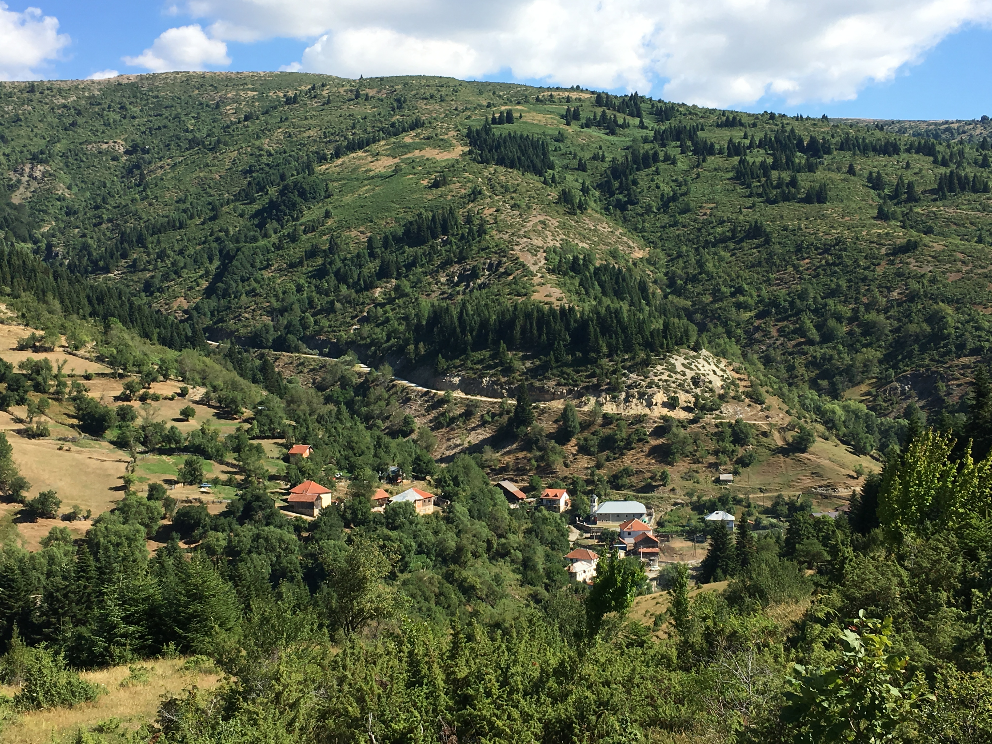 Panoramic view of the village of Vrben